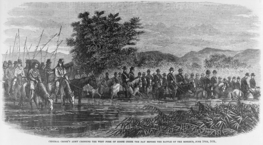 Illus. in: Frank Leslie's Illustrated Newspaper, 1876 Oct 14.: General Crook's Army crossing the west fork of Goose Creek the day before the Battle of the Rosebud, June 18th, 1876; Wood print